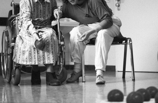 Resident of a nursing home in Munich (Germany)